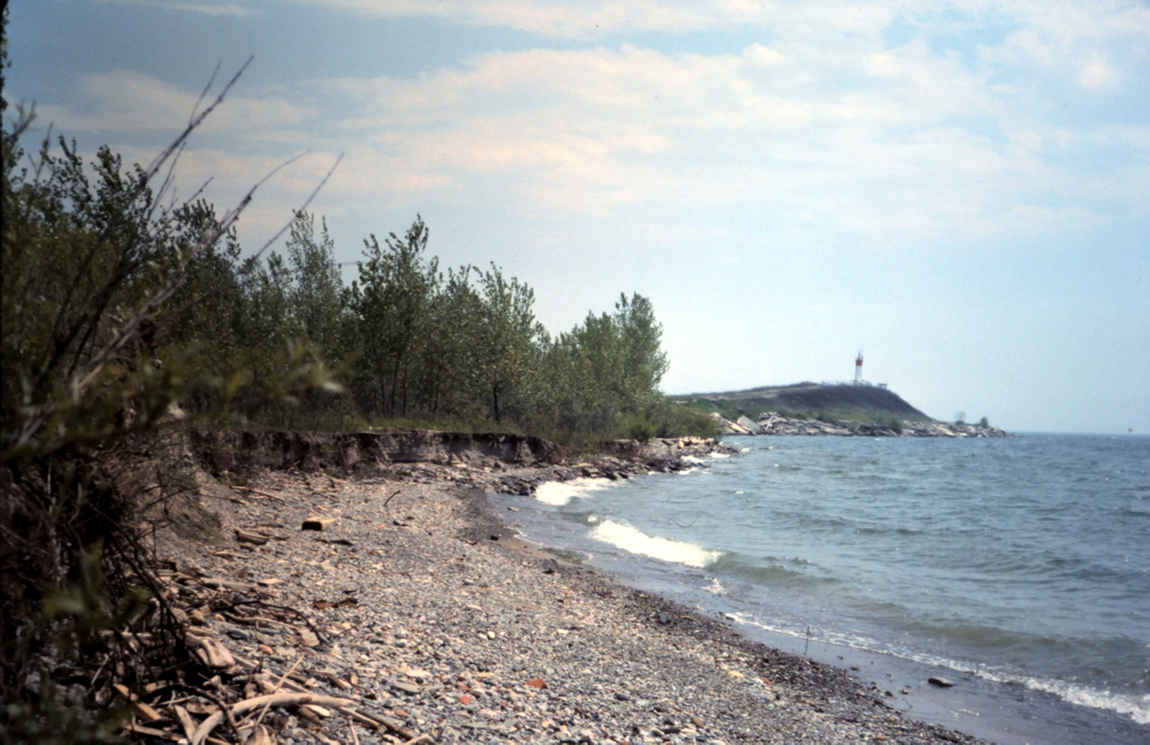 View along Outer Harbour East Headland towards Vicki Keith Point. This picture is the uploader's own work, and may be considered PD.